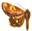 PLATE CCXXVI.